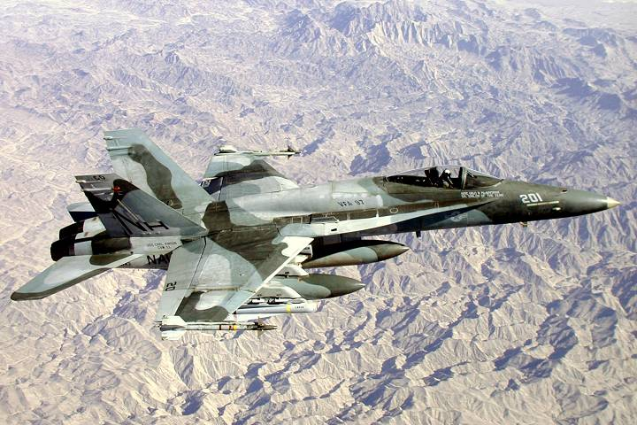 A U.S. Navy McDonnell Douglas F/A-18A Hornet from strike fighter squadron VFA-97 Warhawks in a special camouflage paint. VFA-97 was assigned to Carrier Air Wing 11 (CVW-11) aboard the aircraft carrier USS Carl Vinson (CVN-70) from 1998 to 2002.